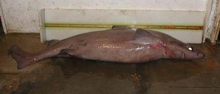 Gulper shark (Centrophorus granulosus)